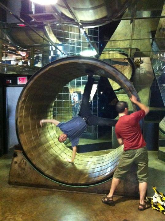 Brian Dunning in the giant hamster wheel at the College of Curiosity in 2012, City Museum, St. Louis MO